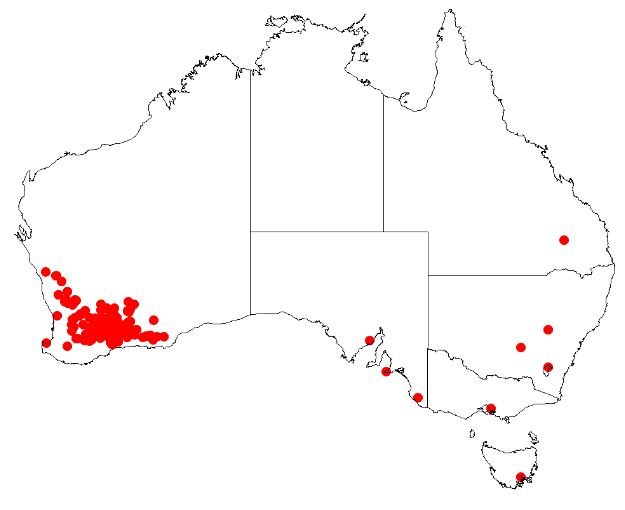 Hakea multilineata Occurrence data downloaded from AVH on 22 November 2018 using